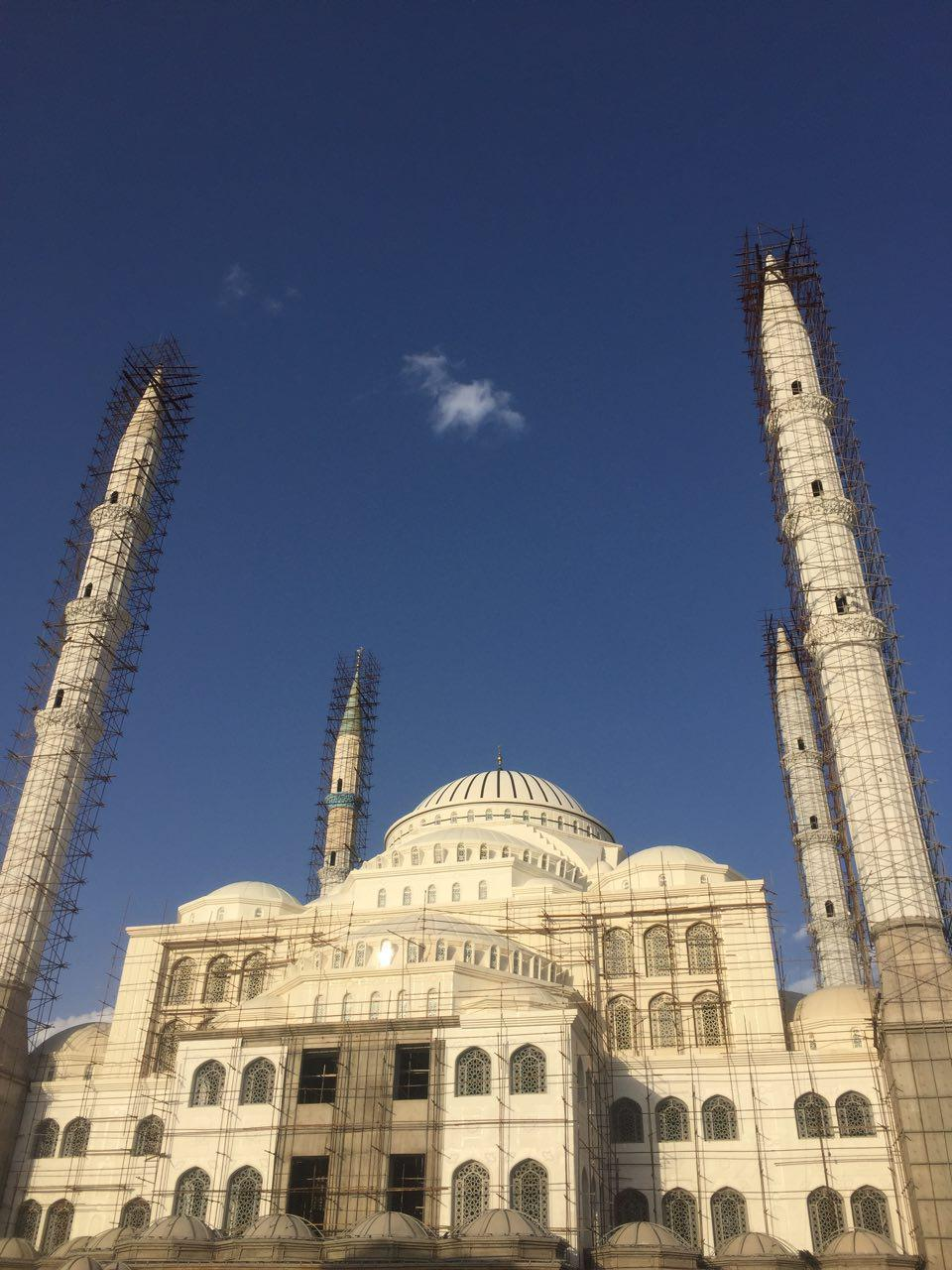 Makki Mosque around midday